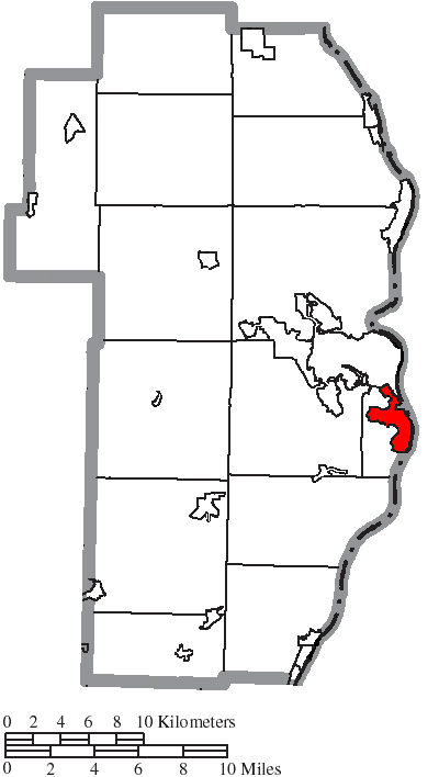 Map of the municipal and township boundaries of Jefferson County, Ohio, United States, as of the 2000 census, with the location of the village of Mingo Junction highlighted. Township borders are shown only in unincorporated areas in order to differentiate incorporated and unincorporated areas more clearly.